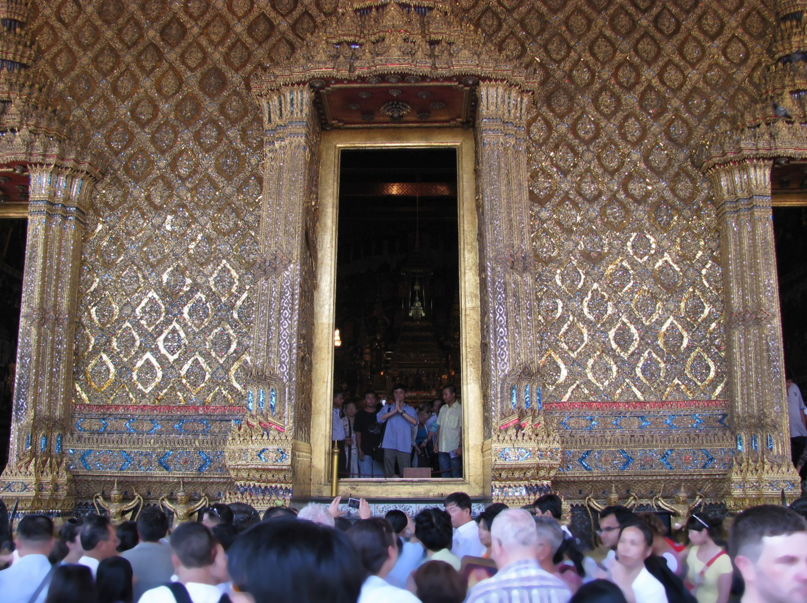 The Temple of the Emerald Buddha in Phra Nakhon, Bangkok, Thailand.